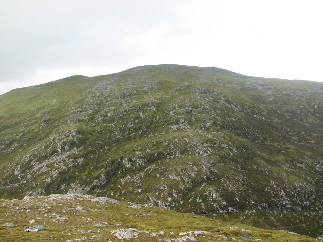 Beinn Enaiglair A view across the Bealach nam Bùthan from near the summit of Meall Doire Faid.